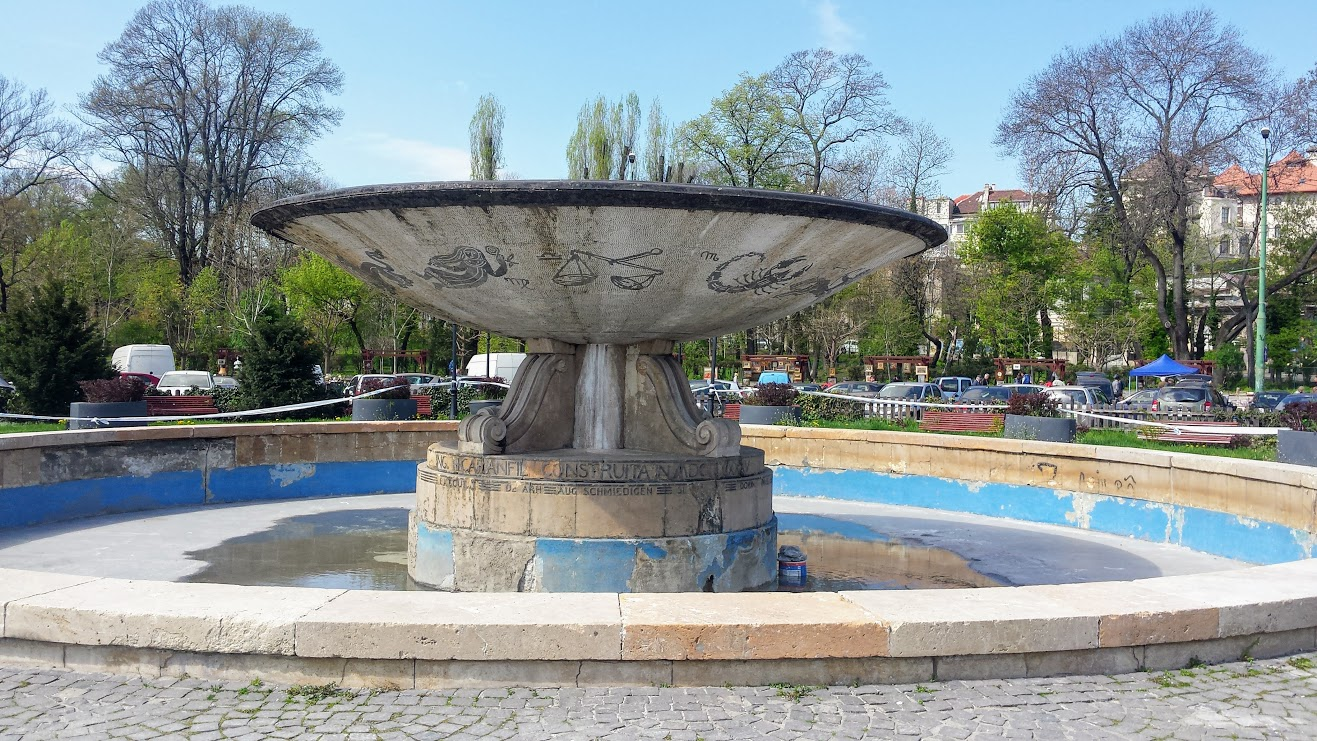 Zodiac fountain, in front of Carol Park in Bucharest, Romania